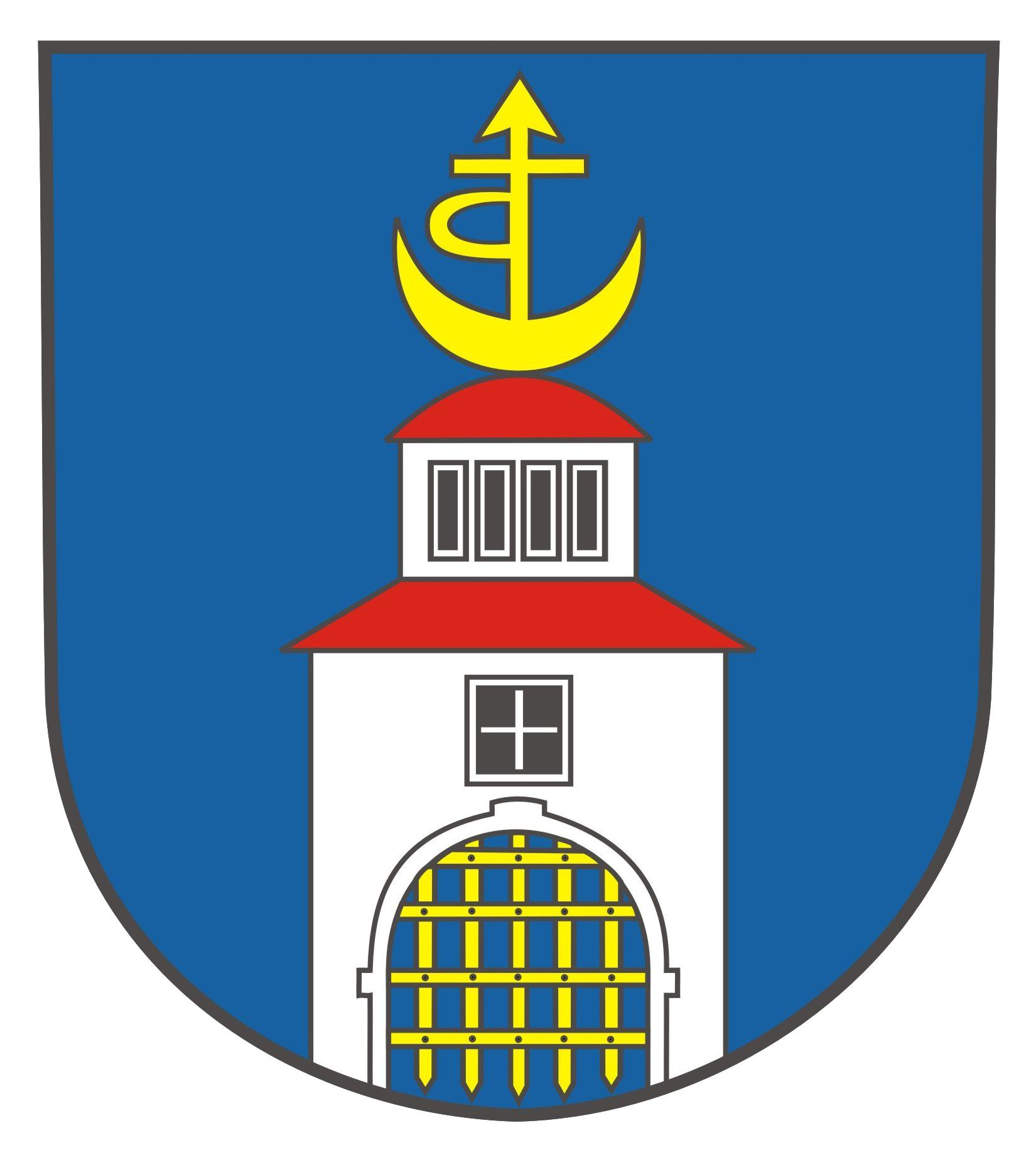 Municipal coat of arms of Bítov village, znojmo District, Czech Republic.